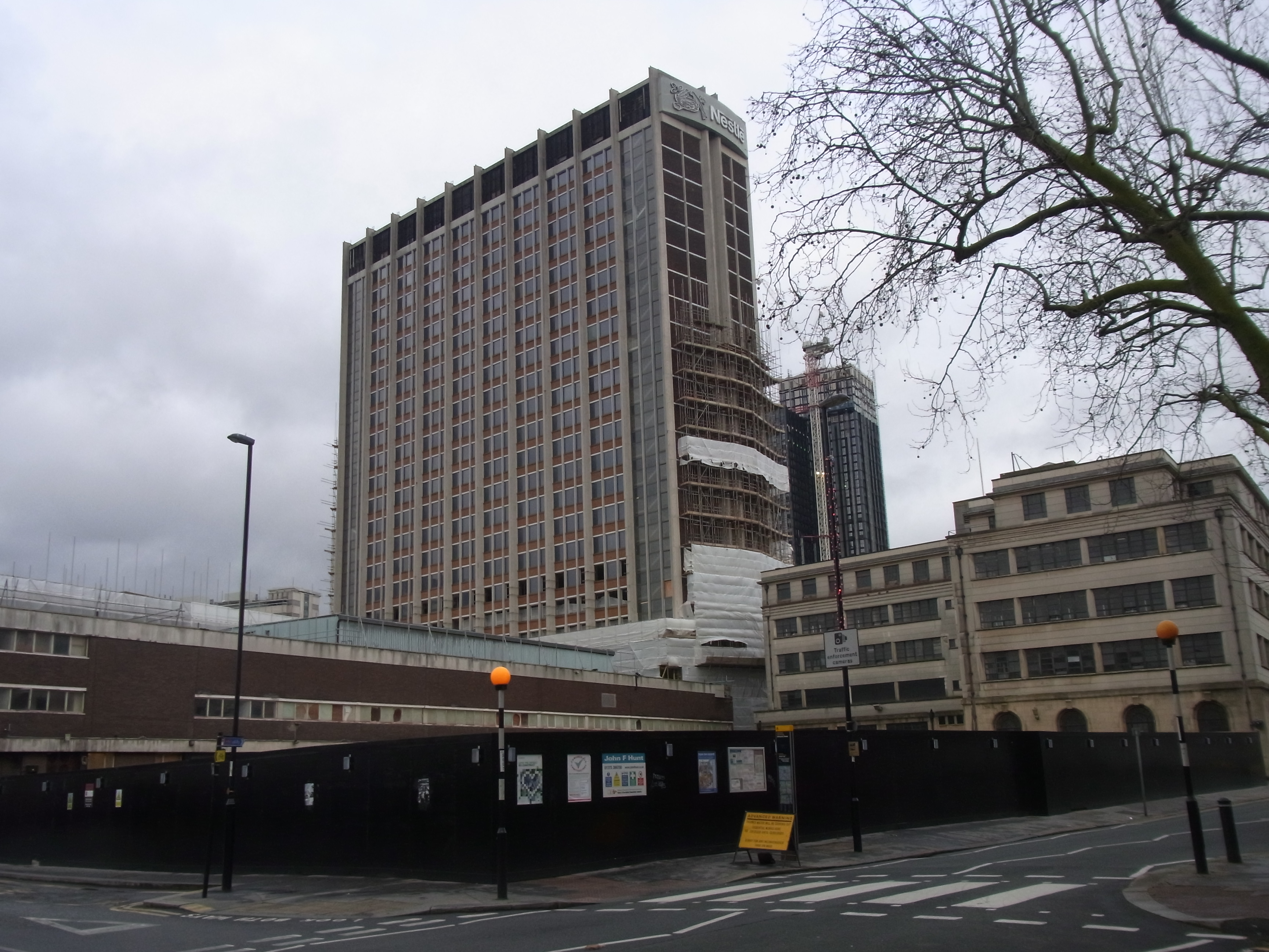 Nestle Tower, Croydon, undergoing refurbishment, January, 2020